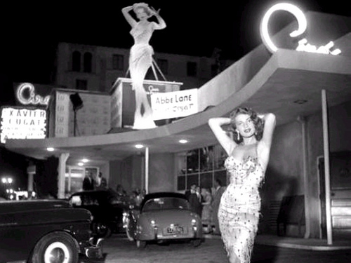 Abbe Lane, Xavier Cugat's wife, gets a big premiere at "Ciro's" (today "The World Famous Comedy Store")